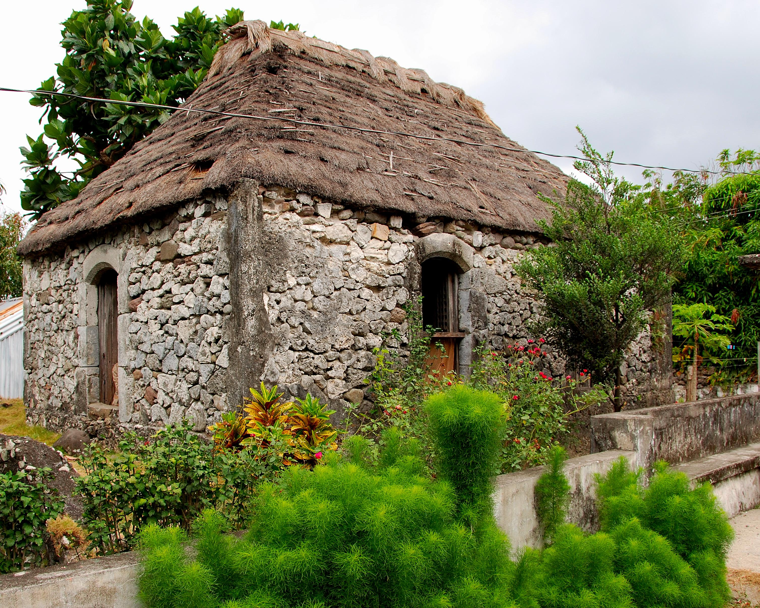 Oldest house in Ivatan, Batanes, Philippines made of corals